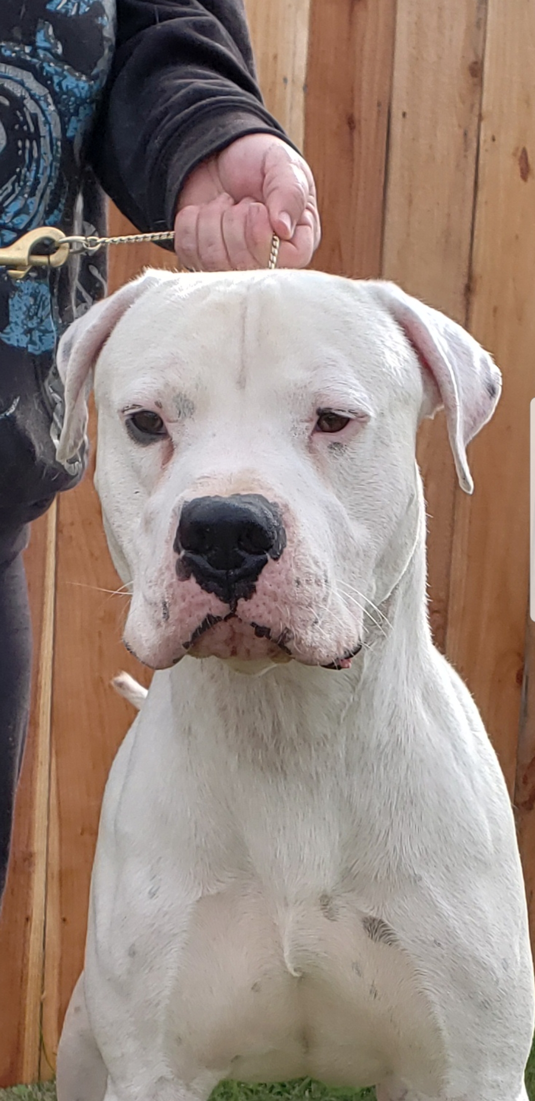 vvdogo argentinodogo argentinoaaaaaadogo argentinodogo argentinodogo argentinodogo argentinodogo argentinodogo argentinodogo argentinodogo argentinodogo argentinodogo argentinodogo argentinodogo argentinodogo argentinodogo argentinodogo argentinodogo argentinodogo argentinodogo argentinodogo argentinodogo argentinodogo argentinodogo argentino